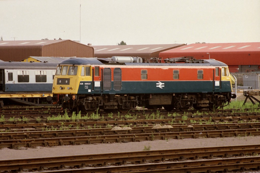 British Rail Research Division ADB 968021, mobile load bank tester. Ex class 84 locomotive 84009, no longer operating under its own power.